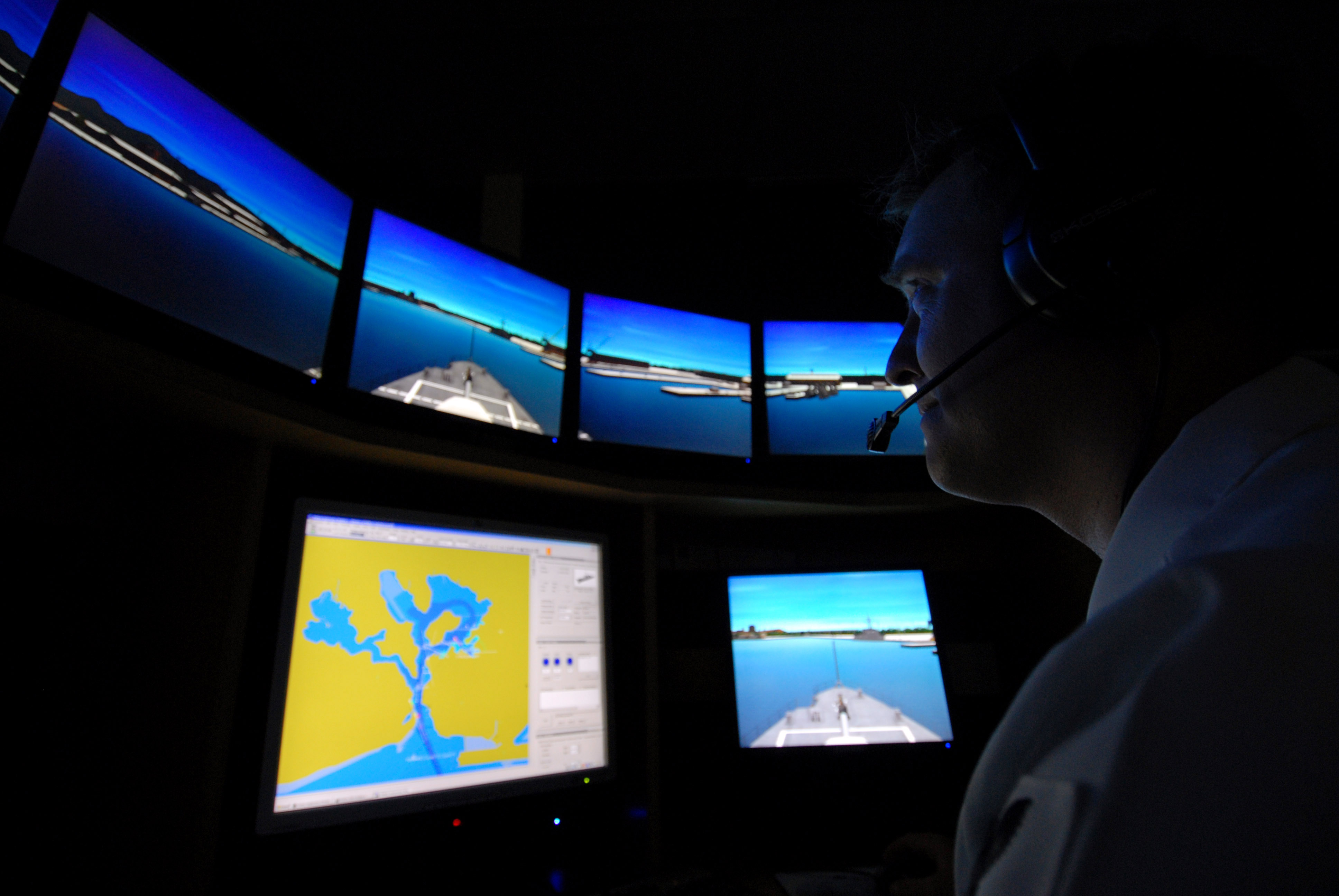 PEARL HARBOR, Hawaii (March 14, 2007) - Quartermaster 1st Class Micky Young, assigned to Afloat Training Group Middle Pacific (ATG MIDPAC), operates the Navigation, Seamanship and Shiphandling Trainer (NSST) master control station during a simulation of a ship’s transit and mooring at Naval Station Pearl Harbor. NSST is a bridge team trainer designed to replicate the environment found on the bridge of a Navy ship and utilizes life-like scenarios with visual simulations to train Navy bridge teams. U.S. Navy photo by Mass Communication Specialist 1st Class James E. Foehl (RELEASED)